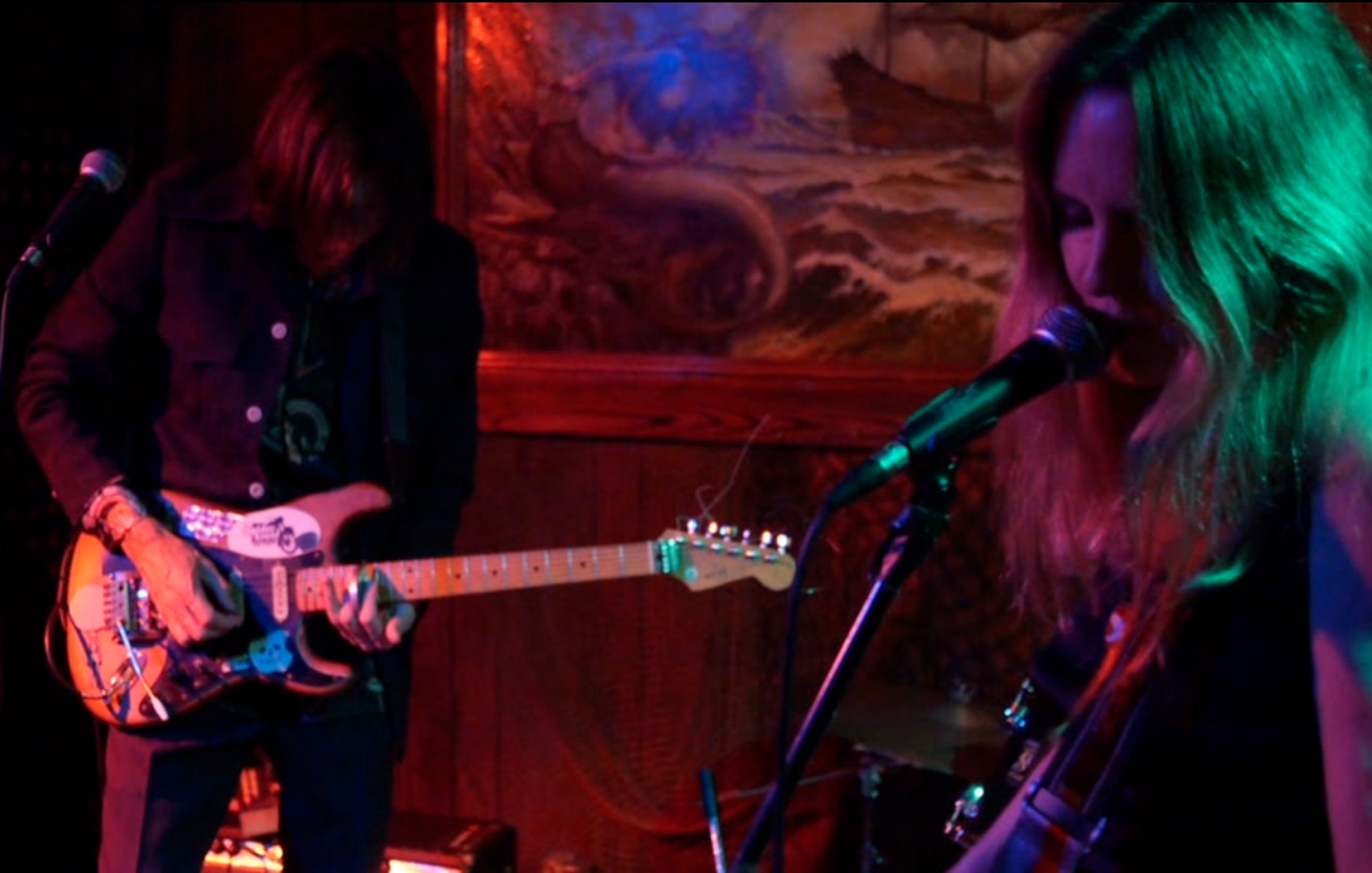 Brian and Maryrose Crook of The Renderers performing at the Redwood Lounge, Los Angeles 2014.